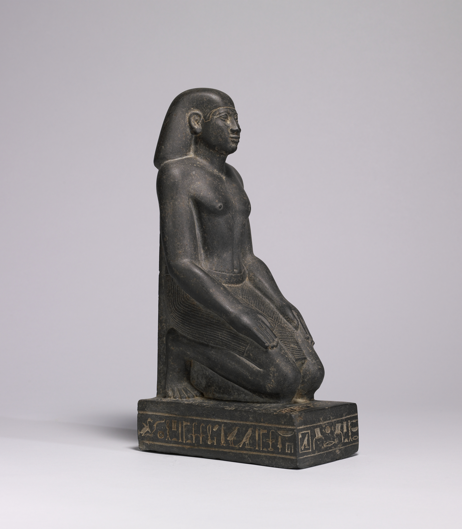 Hor-wedja was the son of Vizier Sasobek, the highest-ranking official during the reign of King Psammetichus I. Hor-wedja's son Meryptah commissioned this temple sculpture for him. Hor-wedja kneels, presenting only himself to his god. He abases himself in the deity's presence but keeps his head erect, expressing respect and confidence. A hieroglyphic inscription gives the lineage and titles of Hor-wedja running in a horizontal band around the base, in a line across the top of the base and in a single vertical column on the back pillar. Hor-wedja kneels upon a rectangular base and his toes are splayed out in an unnatural way. He wears a belted shendyt and a simple bag wig. The wide width of the wig is common for the Saite Period. The orientation of the wig onto the top of the back pillar is echoed in other sculptures from the 26th Dynasty through the reign of Apries. As is characteristic for the Saite Period his image is quite idealized. The body appears strong but the definition of the musculature is subtle. A strong median line is visible. His hands are placed flat upon his thighs and appear unusually plump. His facial features are also typical for the Saite Period: long almond-shaped eyes with straight brows above, long smooth cheeks, a long straight nose and a softly smiling mouth. The statue is well preserved and the polish is only marred by a few minor nicks.